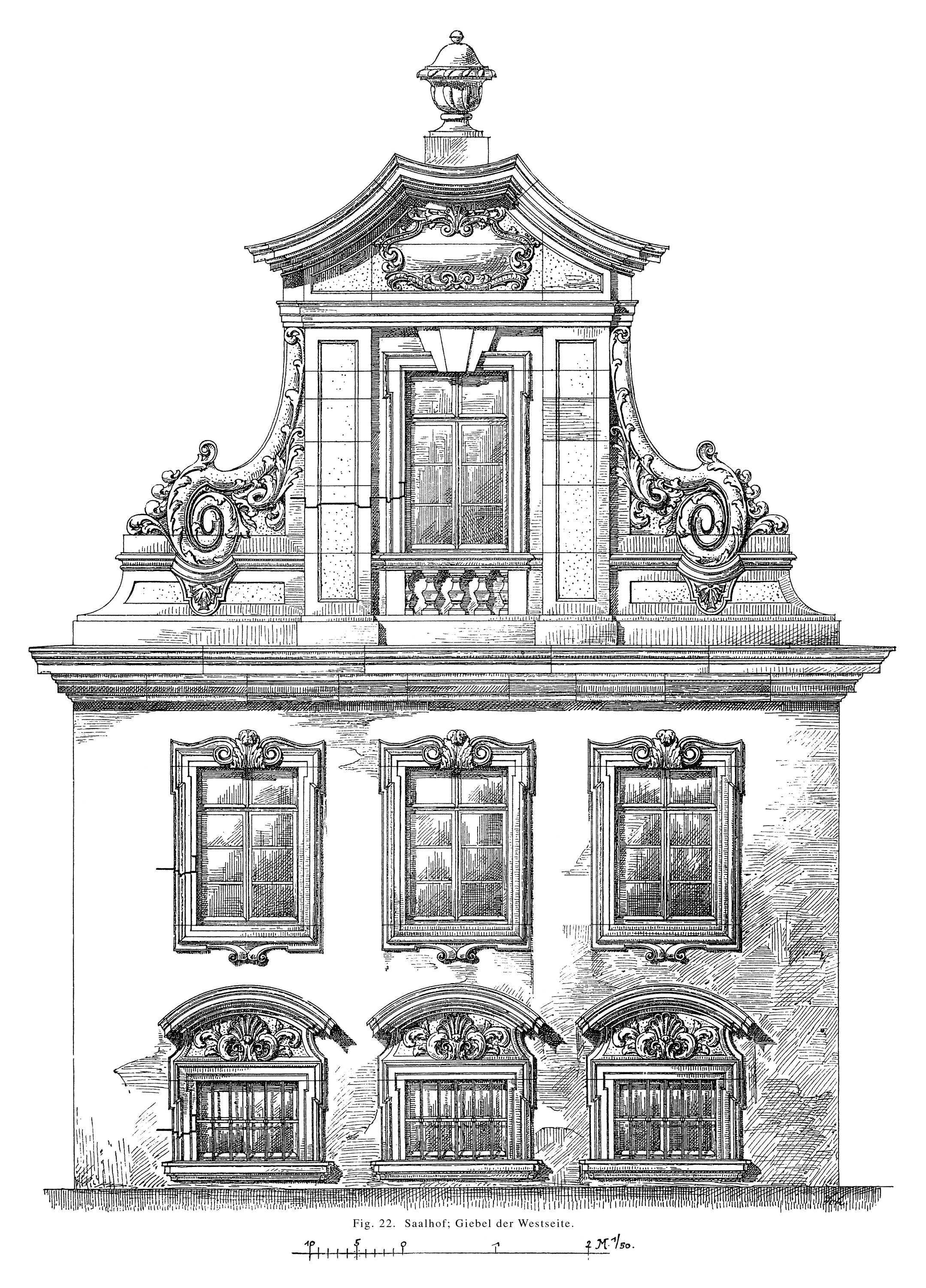 Frankfurt on the Main: Saalhof, oversize of the gable at the western side